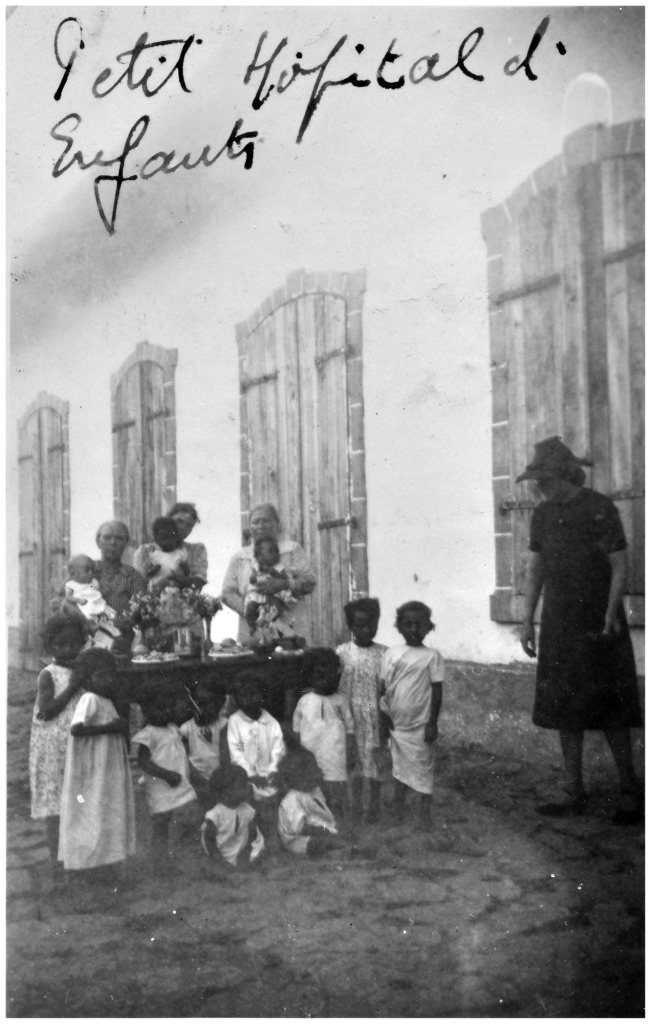 Dorerin Naoero: The « little » children hospital at Saint-Louis (Réunion)